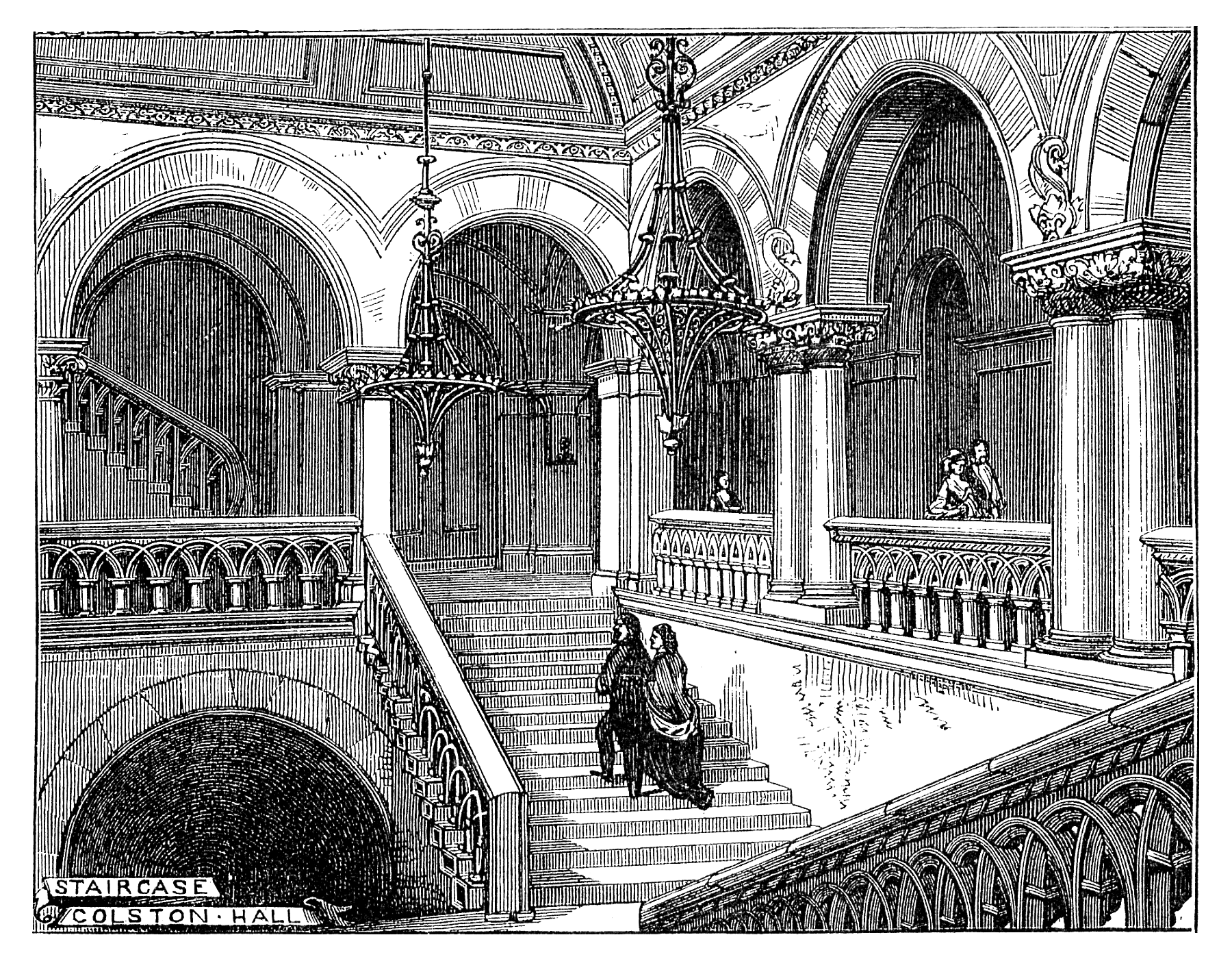 Interior of Colston Hall in Bristol. Cropped from Image:Bristol 1873 - Top half.png, upper left corner retouched to remove an overlapping crest. This is before the 1898 fire that damaged much of the building. (Original title "The Bristol Music Festival: Views in Bristol")